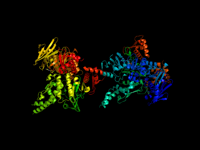 Cohesin PDB 1W1W, image created by User::Blastwizard using Pymol